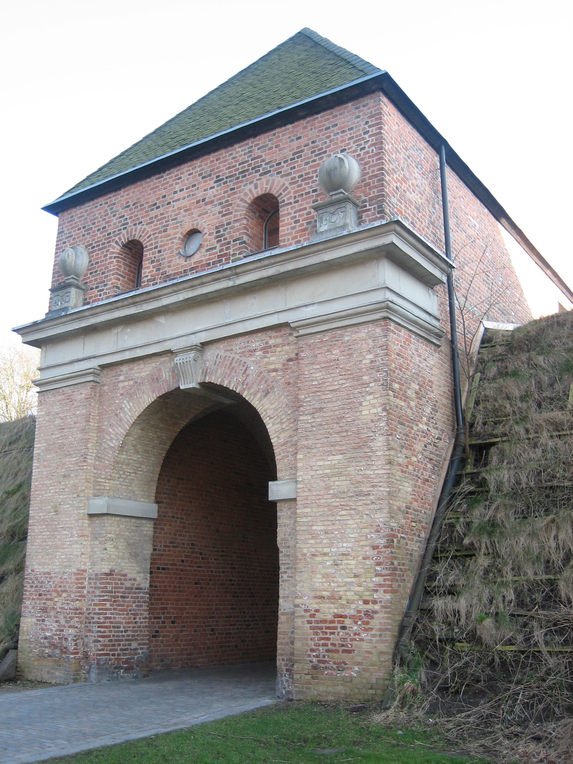 The North Gate in Halmstad.